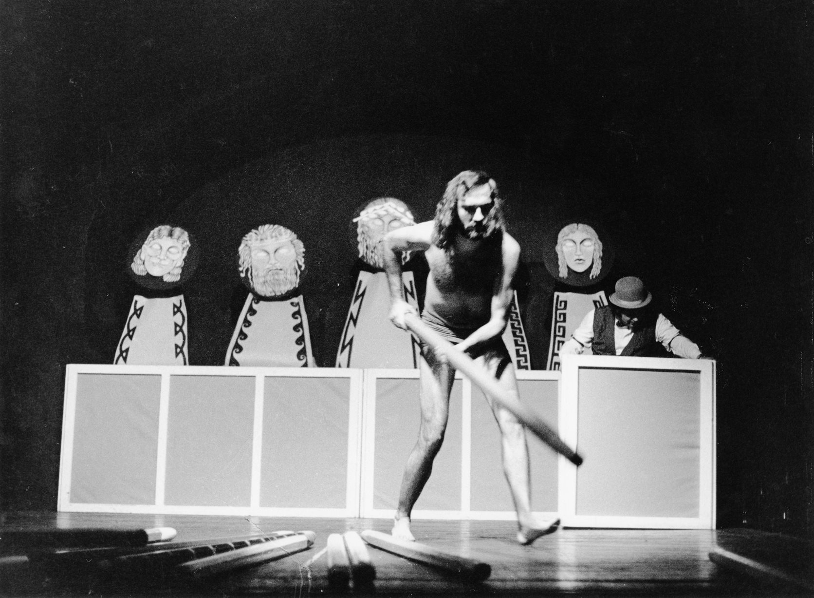 Mario_Ricci-Lungo_viaggio_di_Ulisse._Teatro_Abaco-1972-Foto_Agnese_De_Donato